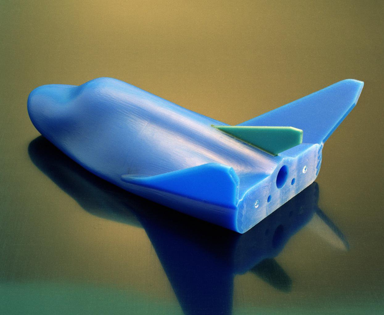 A numerically machined wax pattern of the NASA HL-20 orbital re-entry lifting body was cut from a CAD/CAM file. This nine-inch wax model was later used in a lost wax investment casting process to replicate the pattern in ceramic for wind-tunnel aero-heating studies.